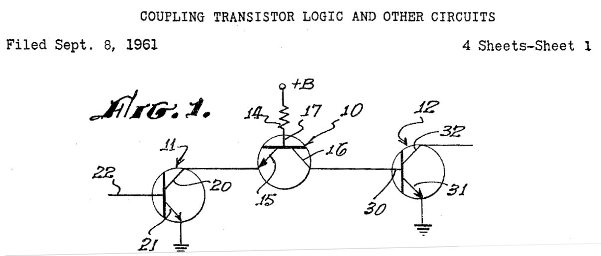 Blui transistor logic circuits patent US3283170A